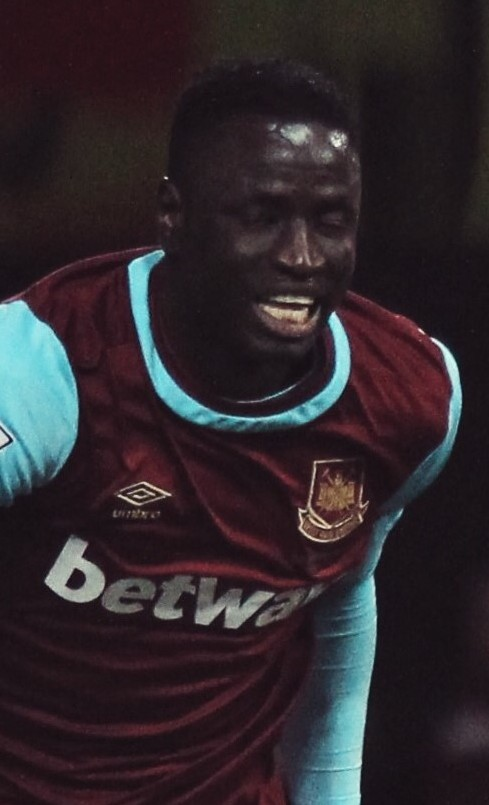 Enner Valencia of West Ham celebrates his second goal during the game against Manchester City.